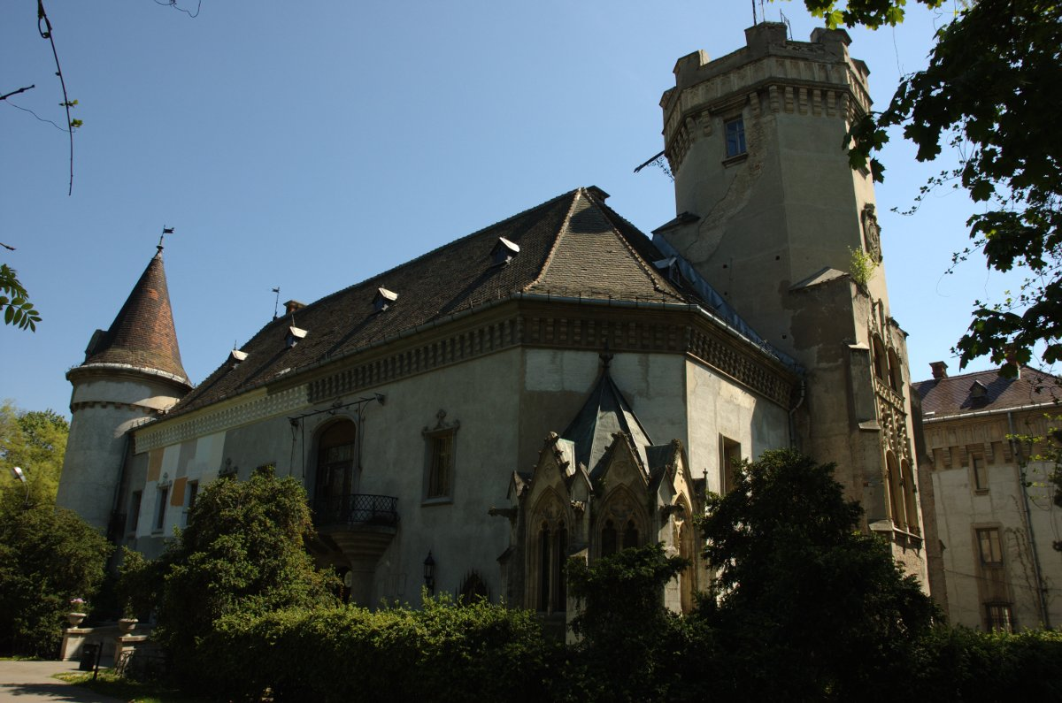 a view of the Karolyi castle in Carei, Romania